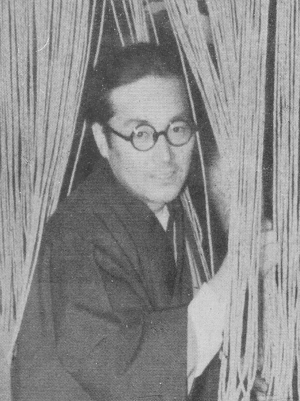 Ryūtarō Tatsumi (Actor of Japan). taken in 1951.